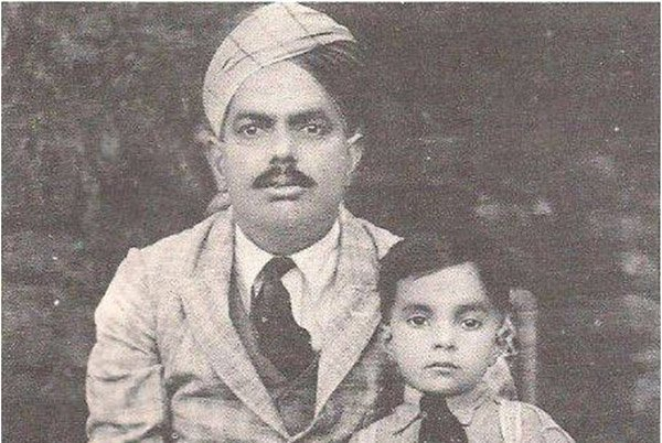 Muhammad Zia-ul-Haq was a military dictator who became the 6th President of Pakistan after declaring martial law in 1977.